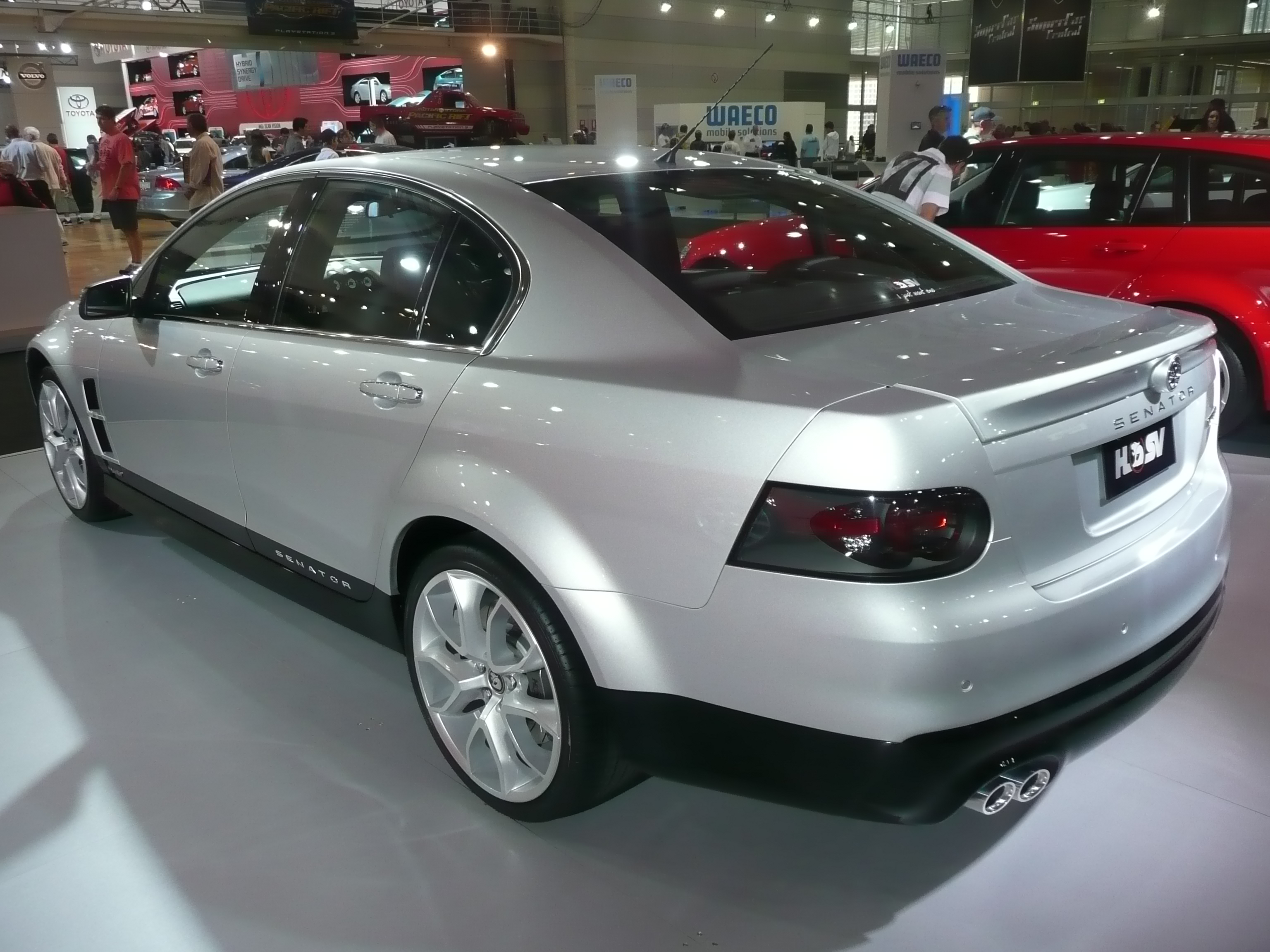 2008 HSV Senator (E Series MY09) Signature SV08 sedan. Photographed at the 2008 Australian International Motor Show, Sydney, New South Wales, Australia.